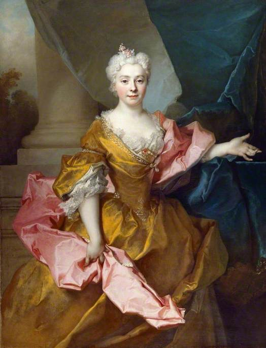 Madame Isaac de Thellusson, née Sarah le Boullenger (1700–1770)